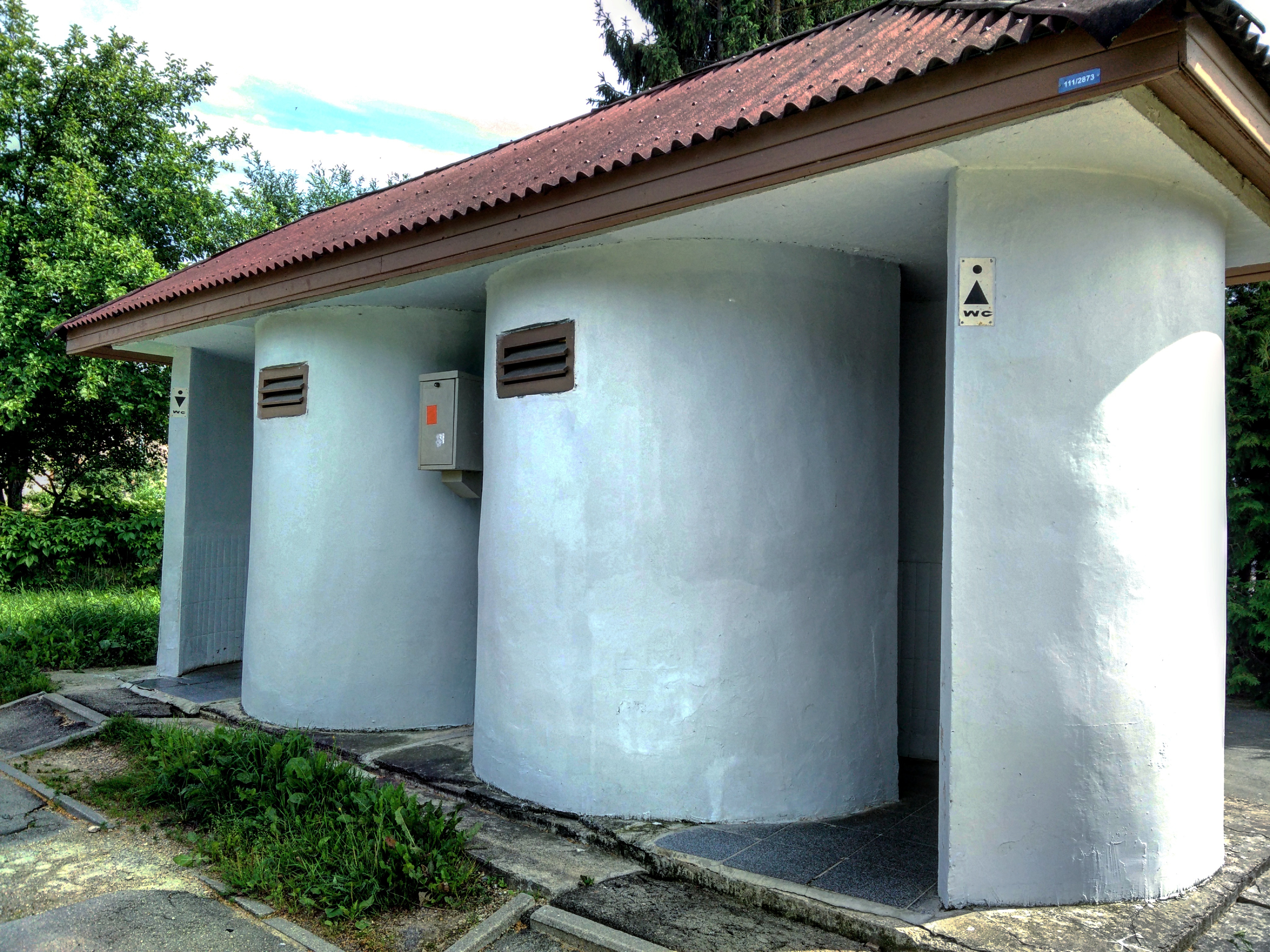 Restrooms at Aizkraukle railway station.